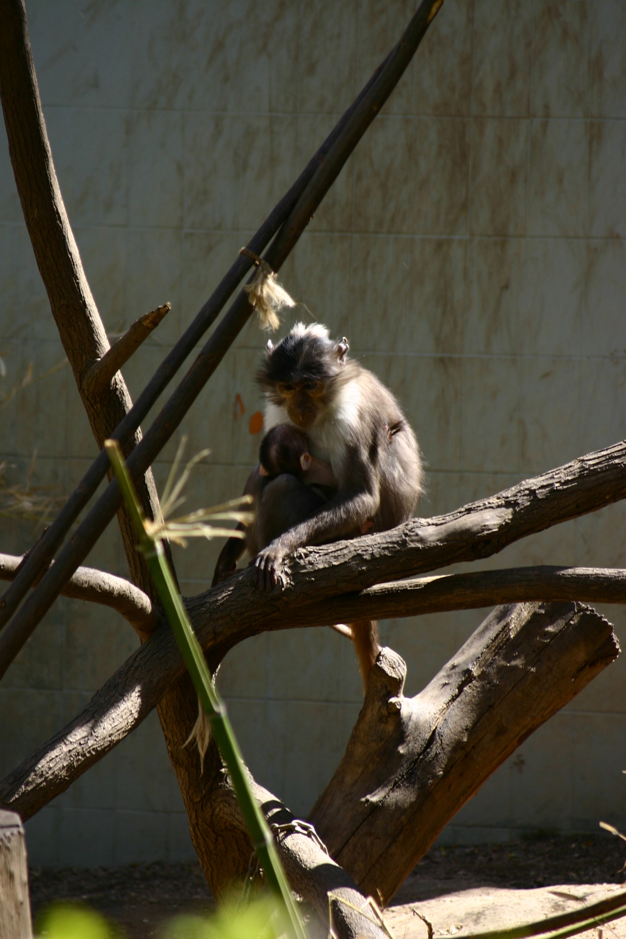 Cercocebus atys lunulatus.